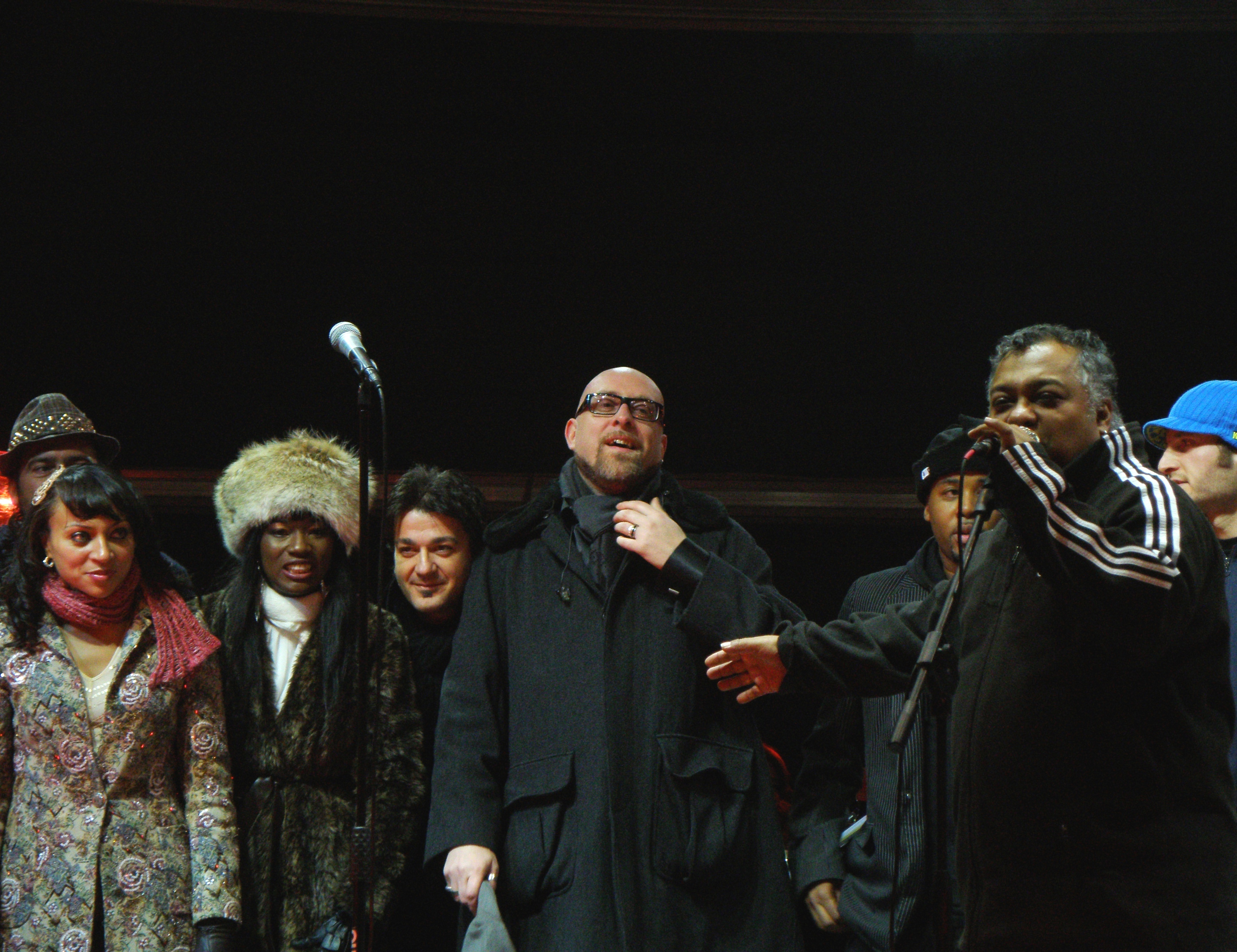 Mario Biondi and the British band Incognito at the end of the concert. Piazza Duomo, Milan, Italy. On the right, at the microphone, the Incognito leader Bluey. In the middle, Mario Biondi.